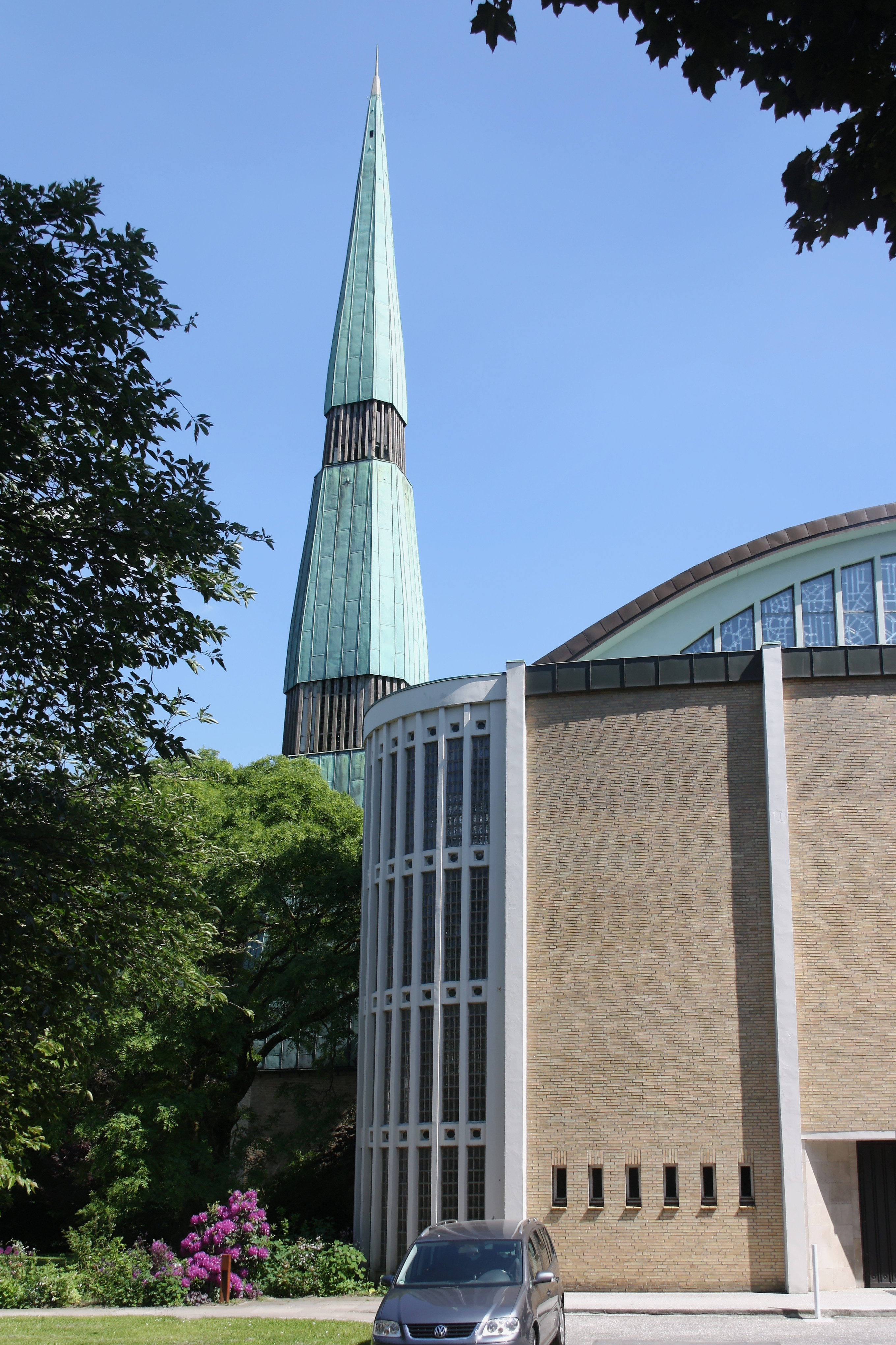 St.Mary's Church in Hamburg-Ohlsdorf, tower